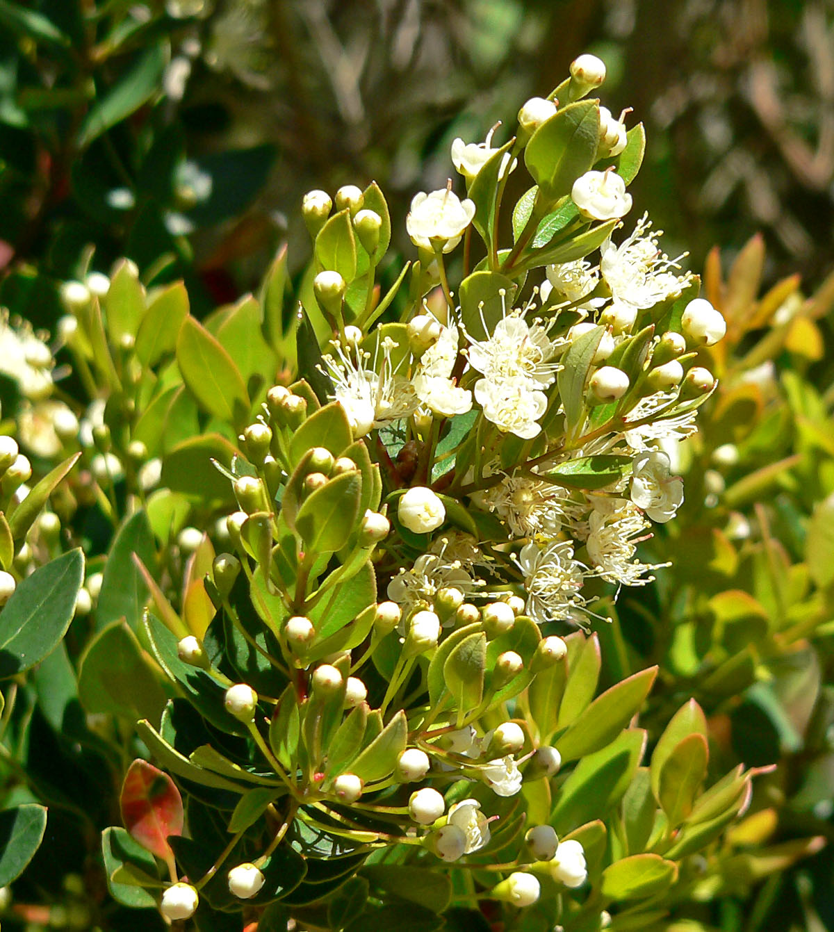 Amomyrtus meli at the University of California Botanical Garden, Berkeley, California